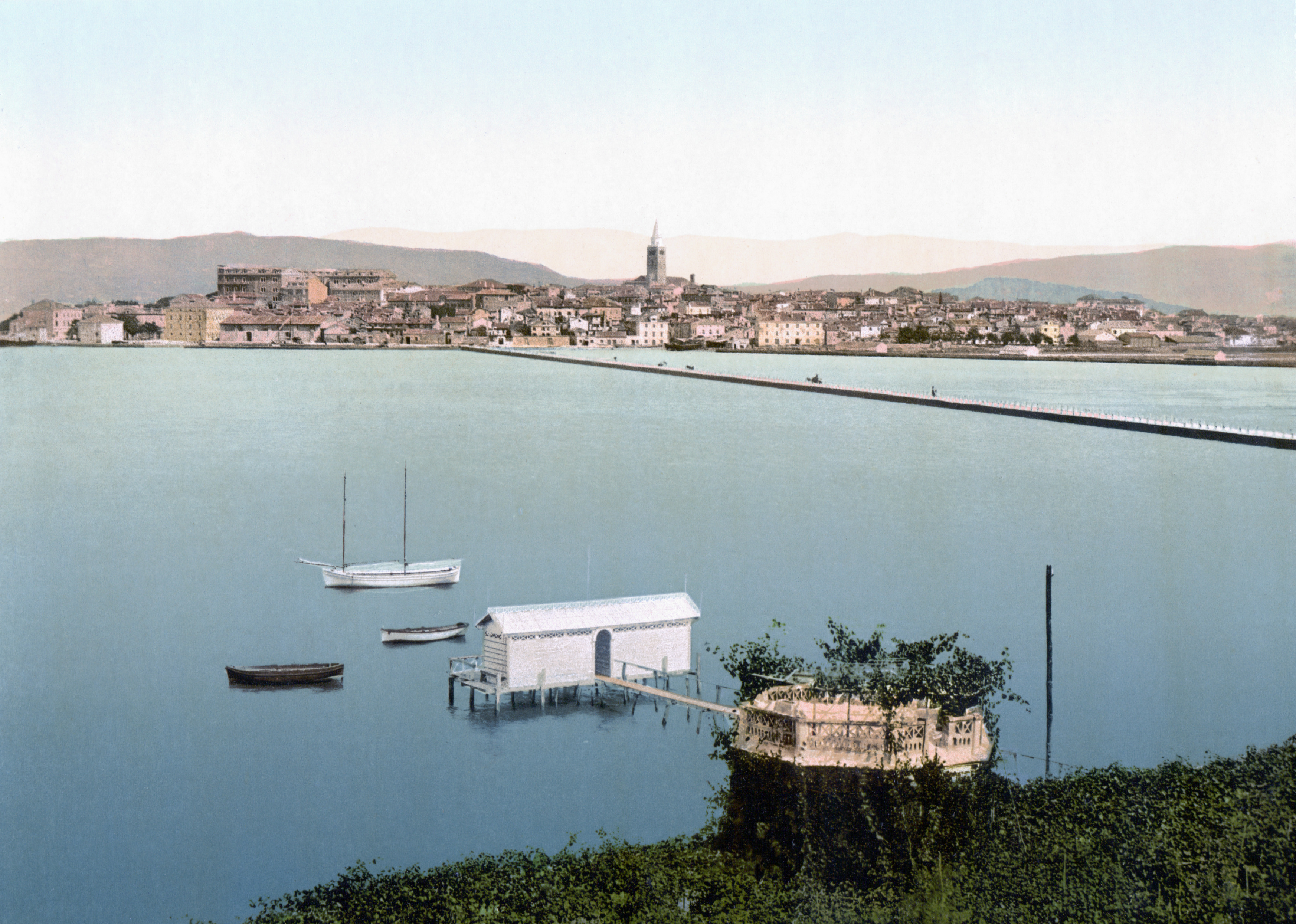 Koper on photochrom print, around 1900